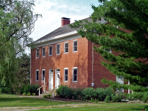 White Water Shaker Village Meeting House. Present Day.